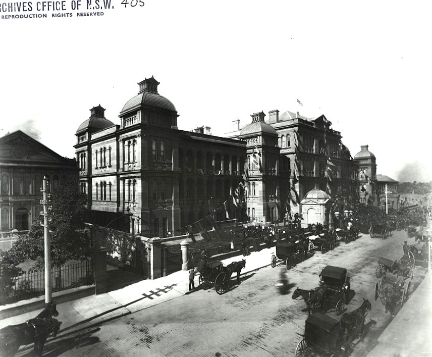 Sydney Hospital, Macquarie Street, Sydney Dated: No date Digital ID: 4481_a026_000368 Rights: Wikipedia has a history of Sydney Hospital We'd love to hear from you if you use our photos. Many other photos in our collection are available to view and browse on our website using Photo Investigator.